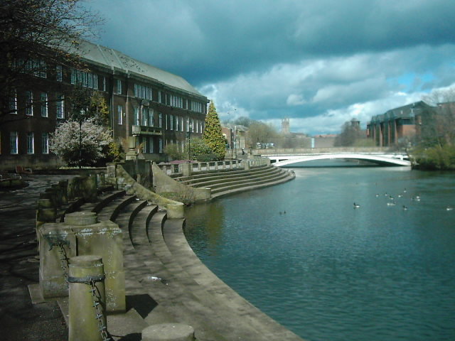 The River Derwent, River gardens and the Council House, Derby. Photo Taken: 12/04/08